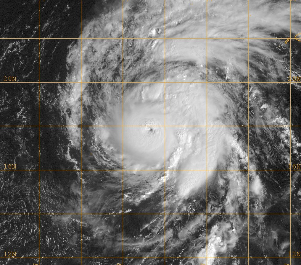 Hurricane Neki at category 3 strength on October 21, 2009.